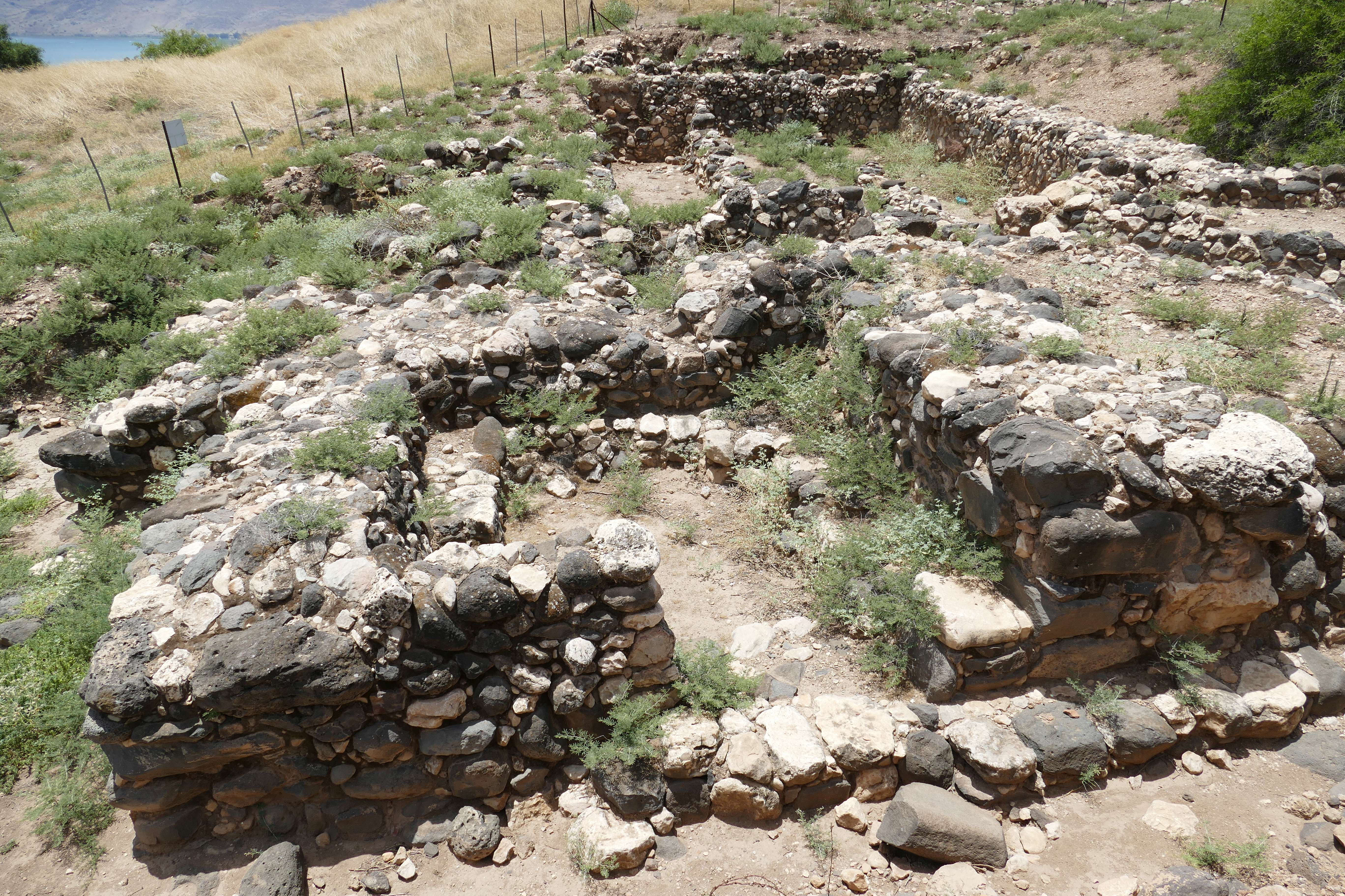 Tel Kinarot, Israel.